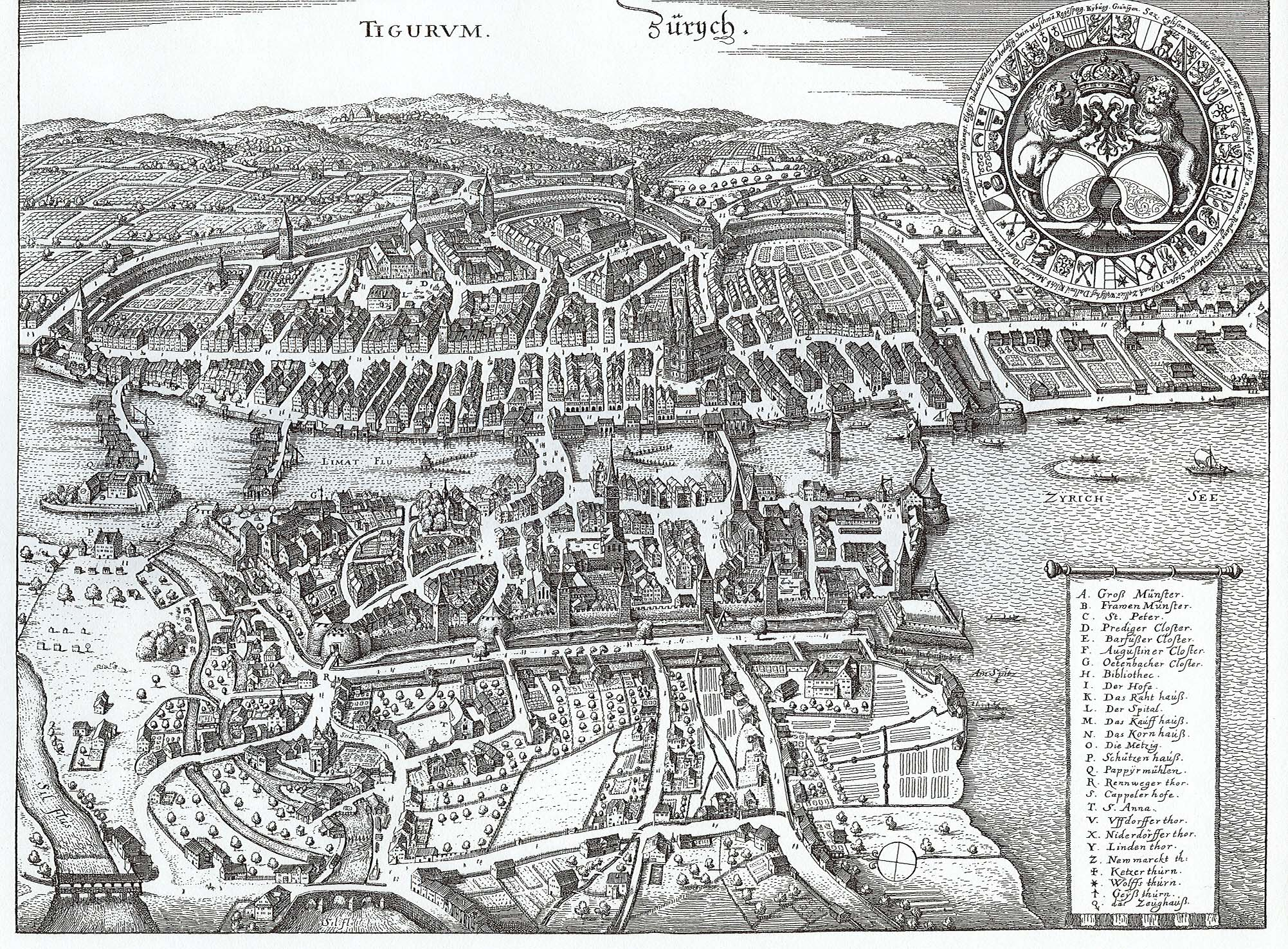 View of the city of Zürich on an engraving ov Matthäus Merian, 1638 after the xylography by Jos Murer (1576) resp. Ludwig Fry